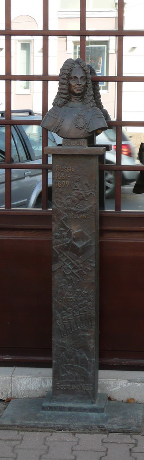 A bust of Patrick Gordon in Yekaterinburg